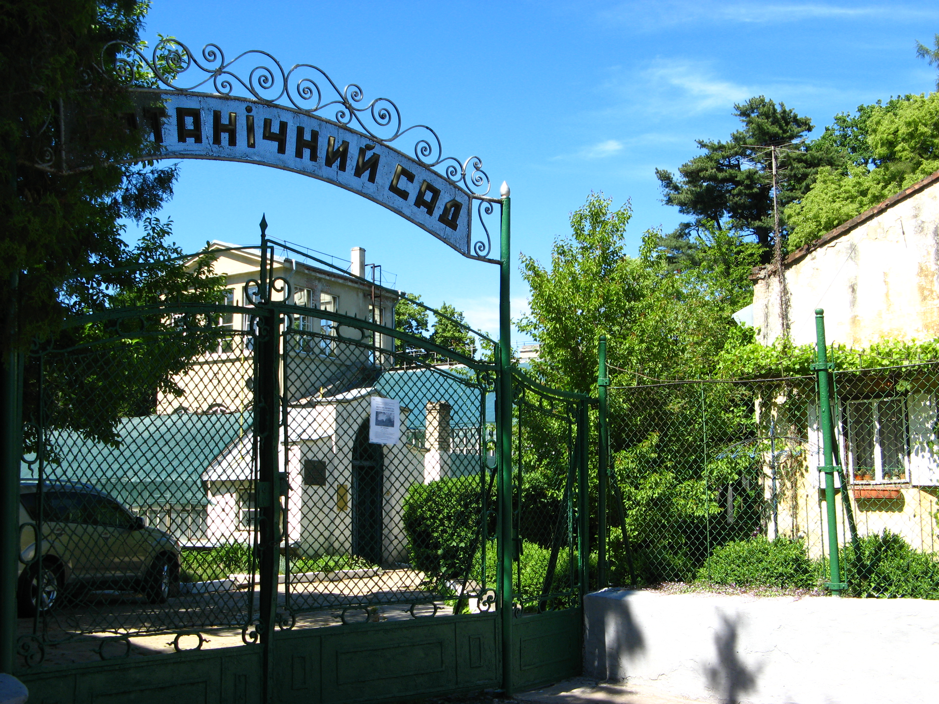 Lviv University Botanical Garden (Kyryla i Mefodija Street)